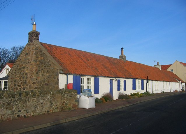 Kingston Small village on a low rocky hill. Colourful row of cottages.